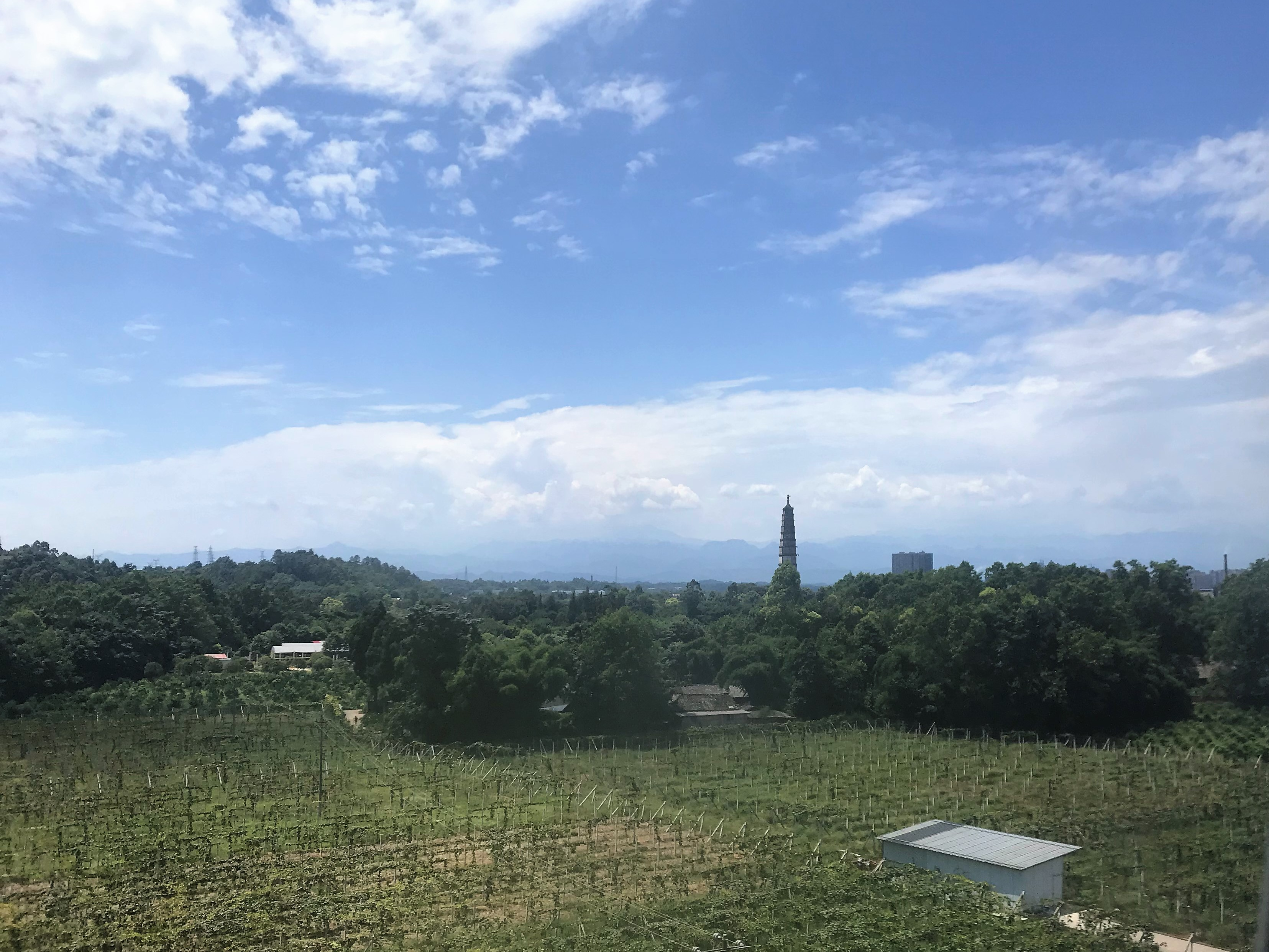 201908 Huilan Tower of Qionglai